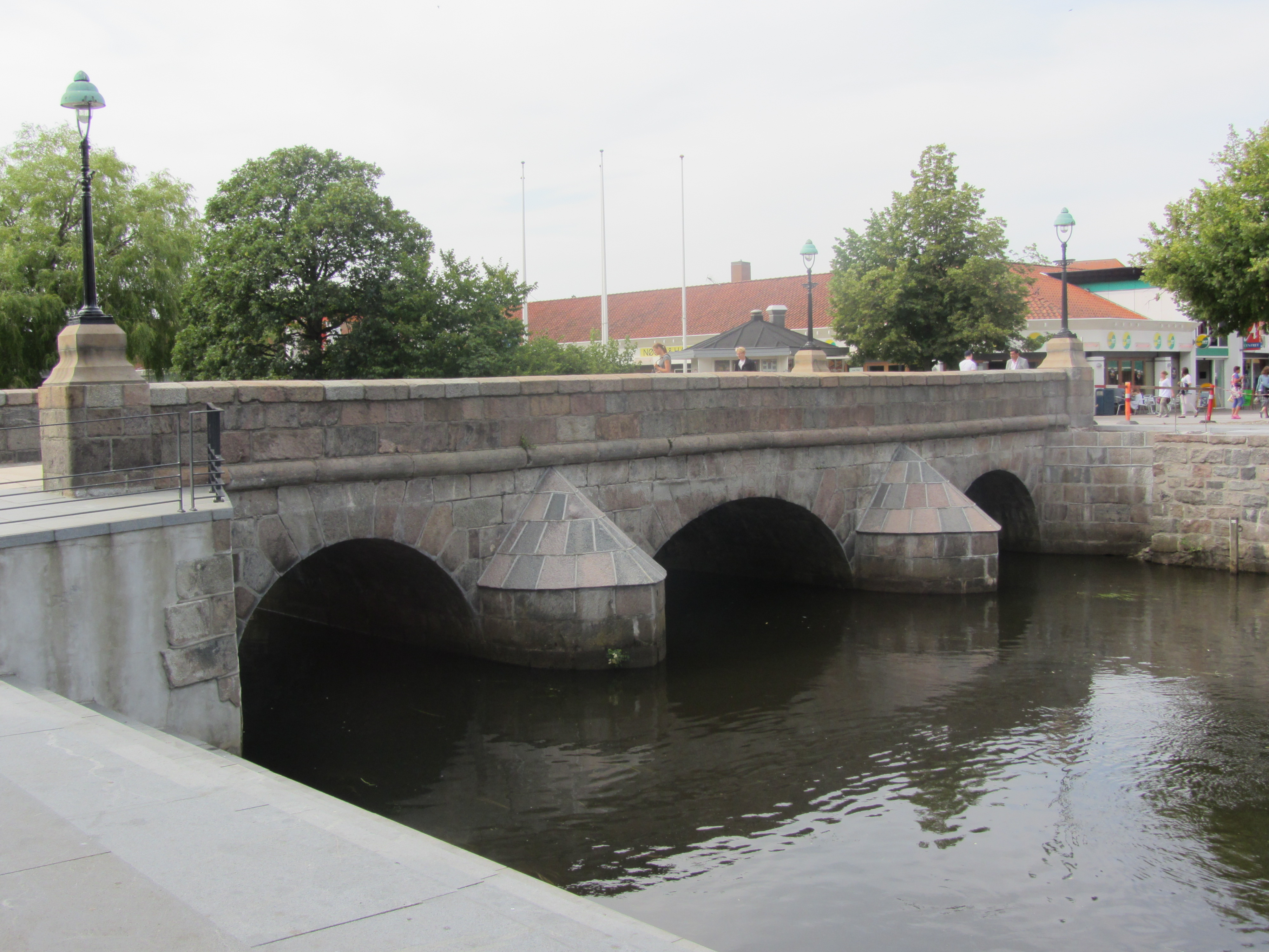 Bridge over Vejle Stream, Denmark